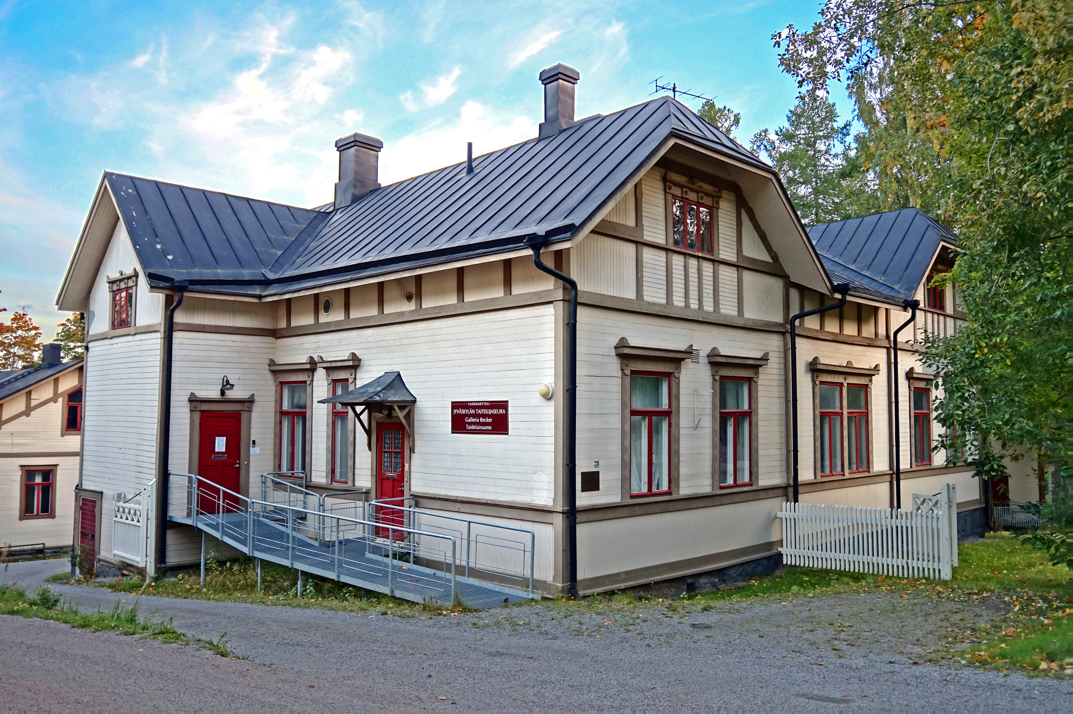 Becker house, Jyväskylä.